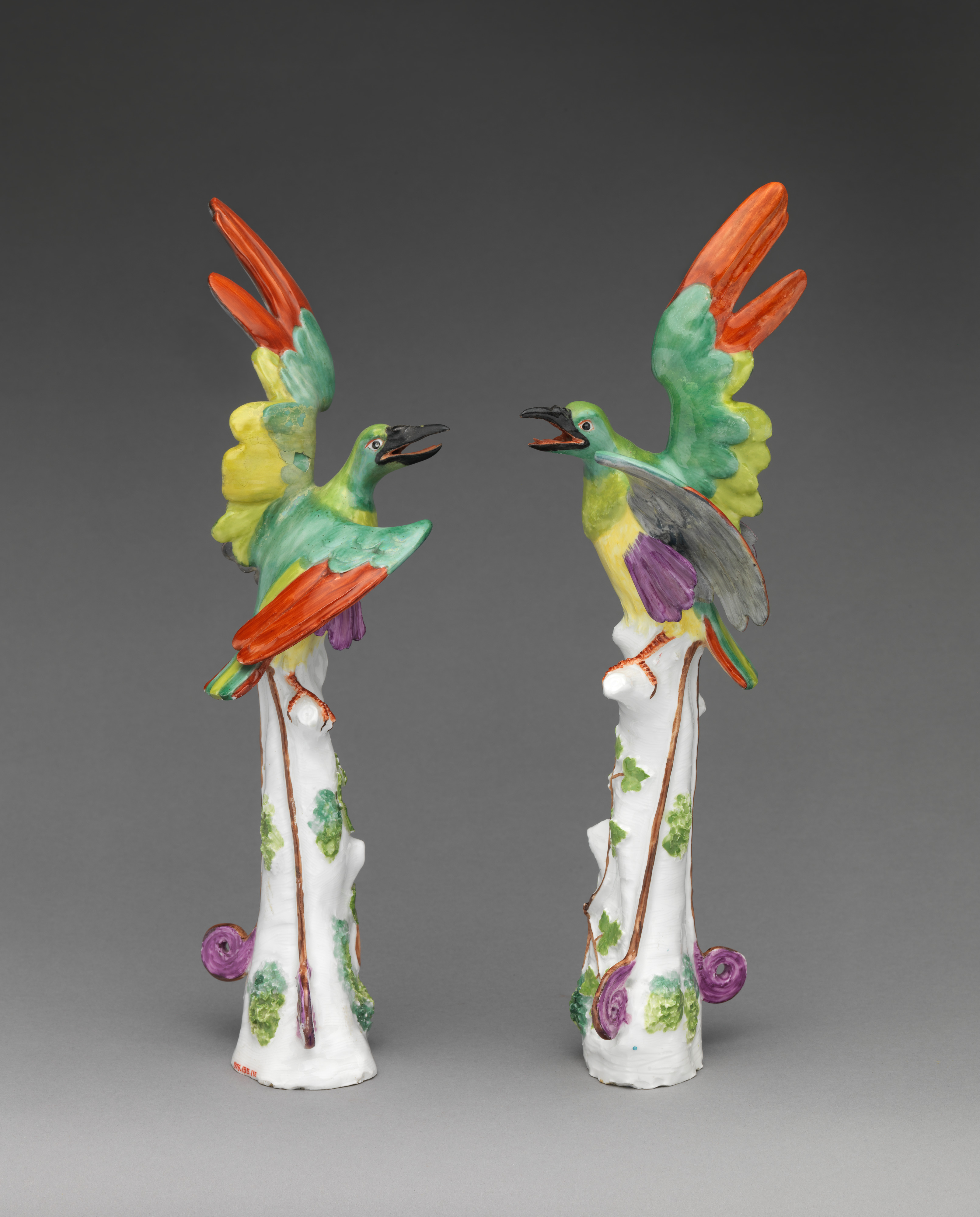 German, Meissen; Figure; Ceramics-Porcelain